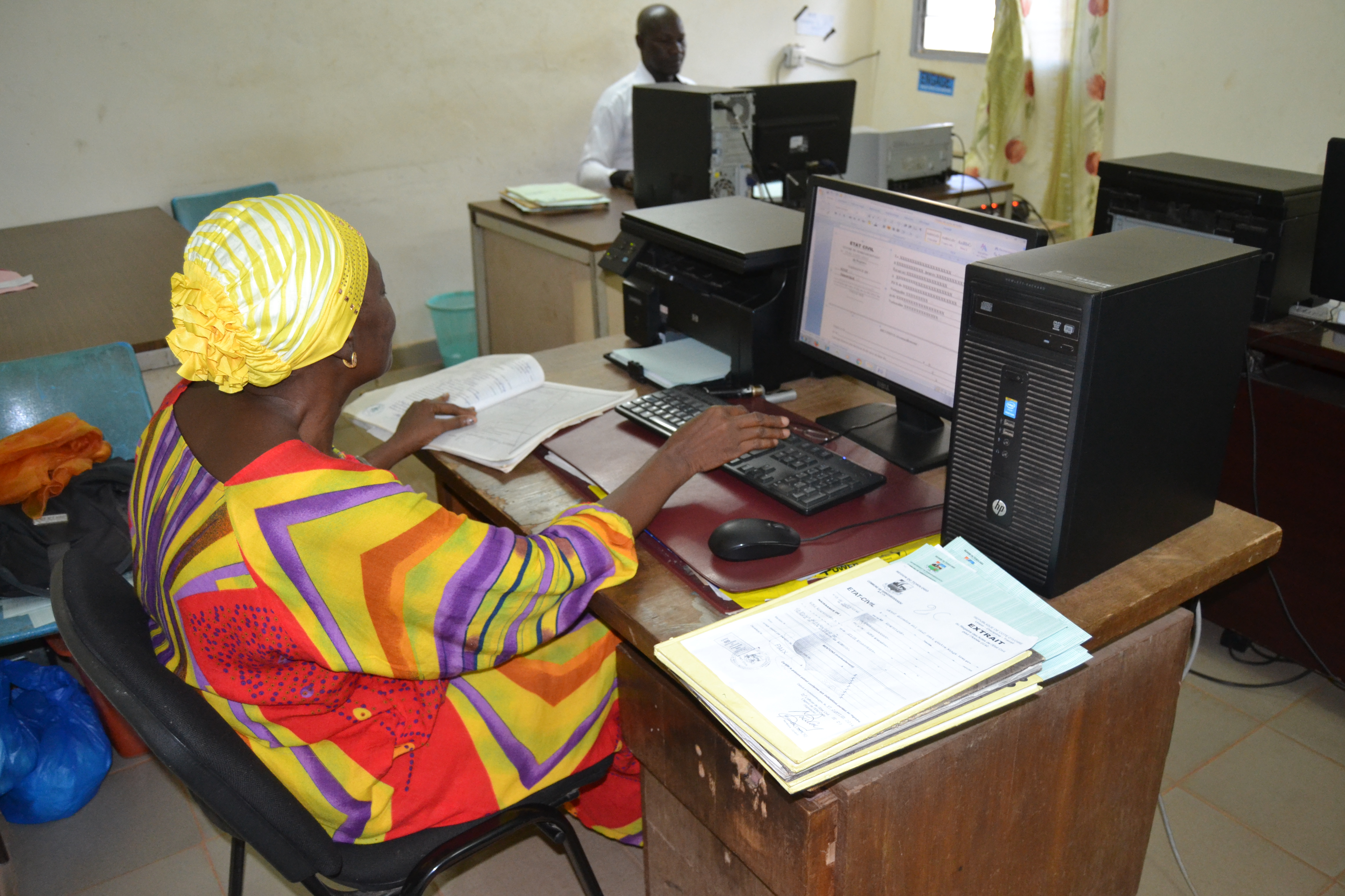 Un opératrice de saisie en pleine journée de travail à la maire de Ferké, une ville située au Nord de la Côte d'Ivoire. La ville est à environ 600 km d'Abidjan, la capitale économique ivoirienne. This is an image of "African people at work" from Ivory Coast